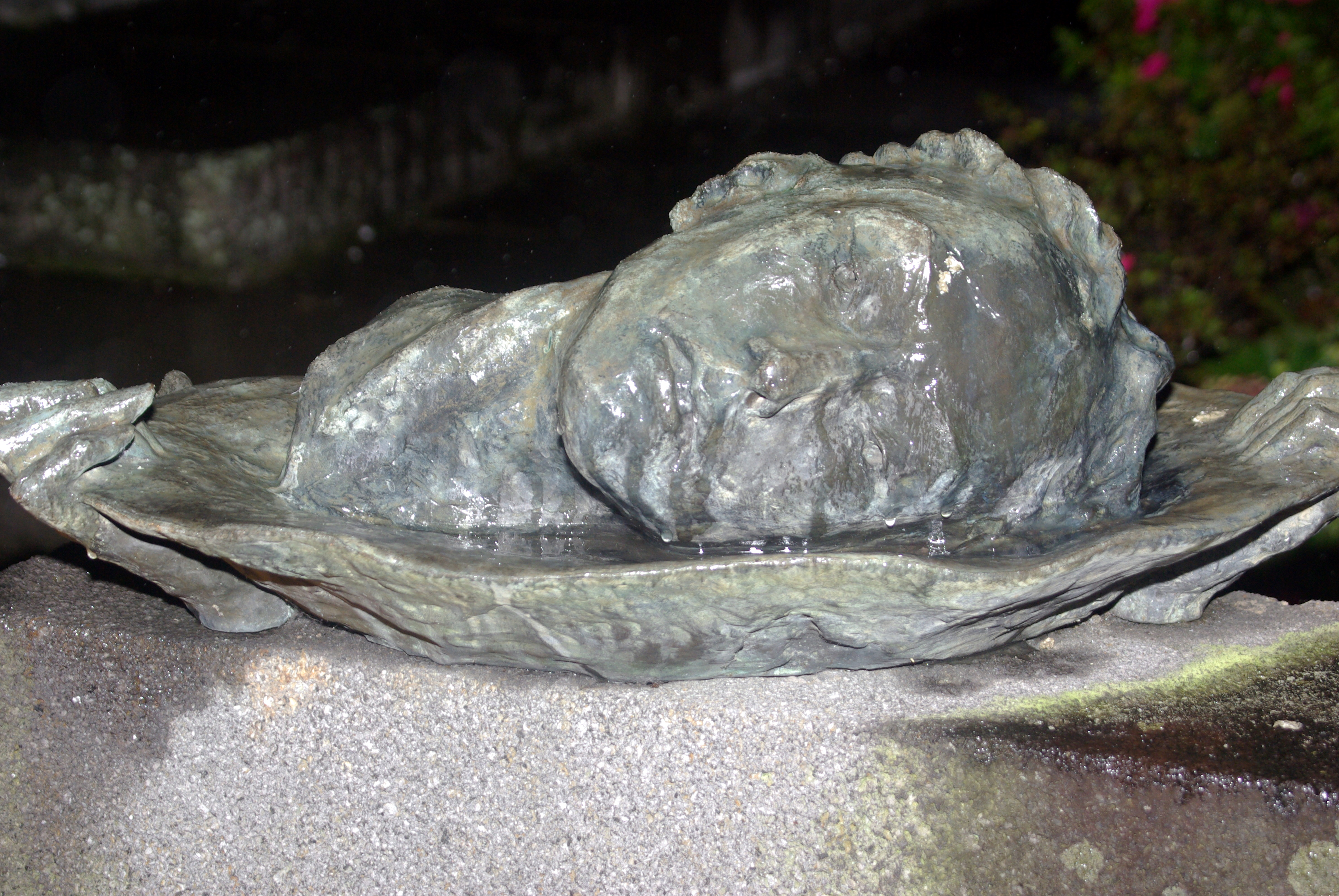 Costarrican writer Yolanda Oreamuno sculpture in the National Theatre garden, San Jose, Costa Rica by Marisel Jimenez; December 11 2011